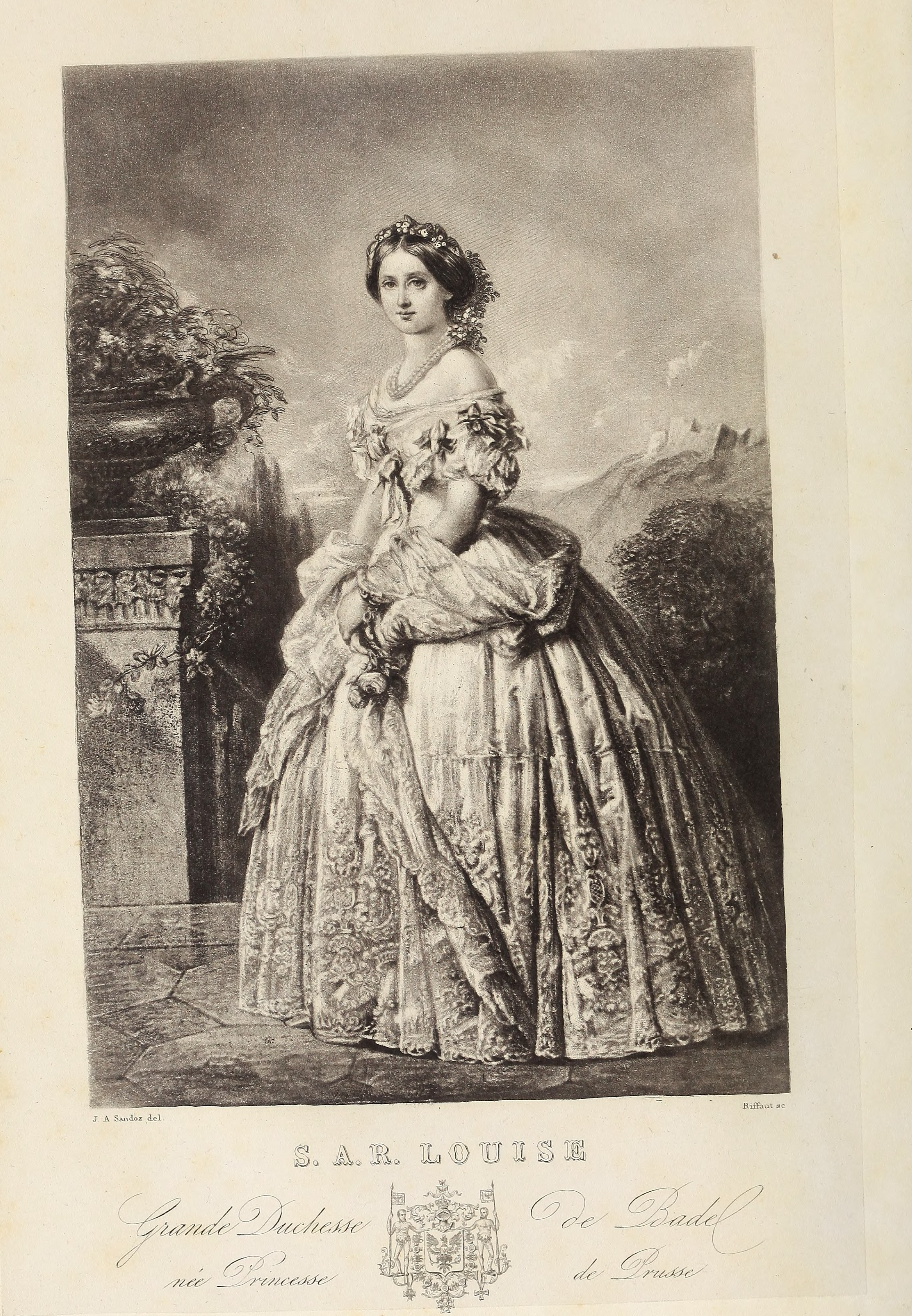 Title: L'été à Bade Year: 1861 (1860s) Authors: Guinot, Eugène, 1812-1861. (from old catalog) Subjects: Publisher: Paris, E. Bourdin (etc.) Text Appearing Before Image: ' Text Appearing After Image: Publié par Ernest Bourdin EUGÈNE GUINOT L ÉTÉ A BADE ILLUSTRE PAR MM. TONY JOHANNOT, EUG. LAMI, FRANÇAIS ET DAUBIGNY QUATRIÈME ÉDITION PRÉCÉDÉE DUNE NOTICE SUR i/AUTEUR PAR M. JULES JANIN ET DE LINAUGURATION DE LEMBRANCHEMENT DE STRASBOURG A KEHL PAR M. AMÉDÉE ACHARD;letebade00guin